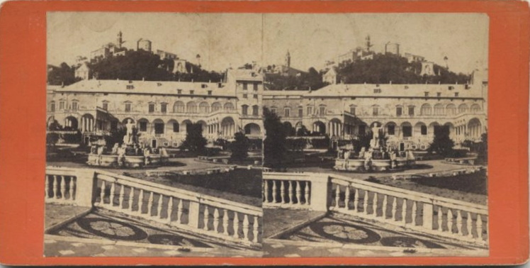 Celestino Degoix (operating from circa 1860 until 1890), "Genoa - Palace of the Prince Doria". Stereo card.